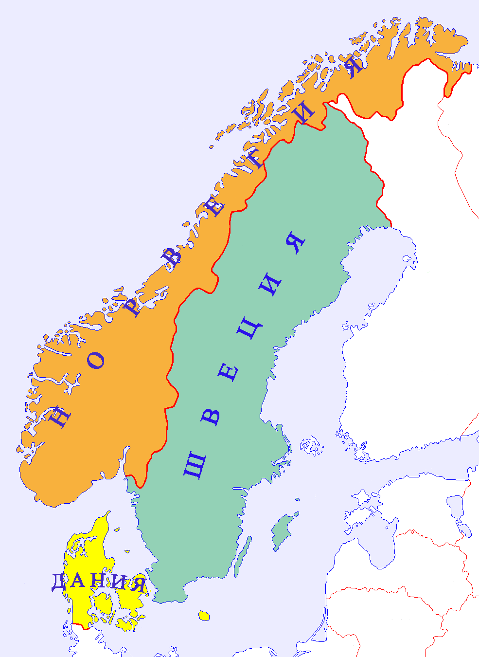 A map of Scandinavia with placenames in Russian